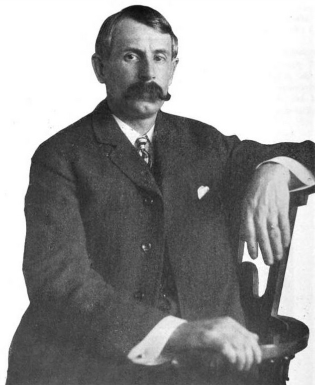 Eugene E. Reed (New Hampshire Congressman)